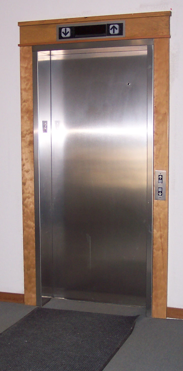 The entrance to a typical style elevator found in many residential and smaller commercial buildings throughout North America. This elevator is located in Winter Park, CO. This elevator is made by Dover Elevator. Dover Elevator sold its division to Thyssenkrupp Elevator. I took this photograph and release it to public domain.